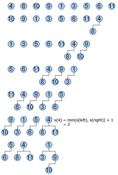 First steps to initialize a min height biased leftist tree. Each line is the queue after the first two items in the previous line have been merged.